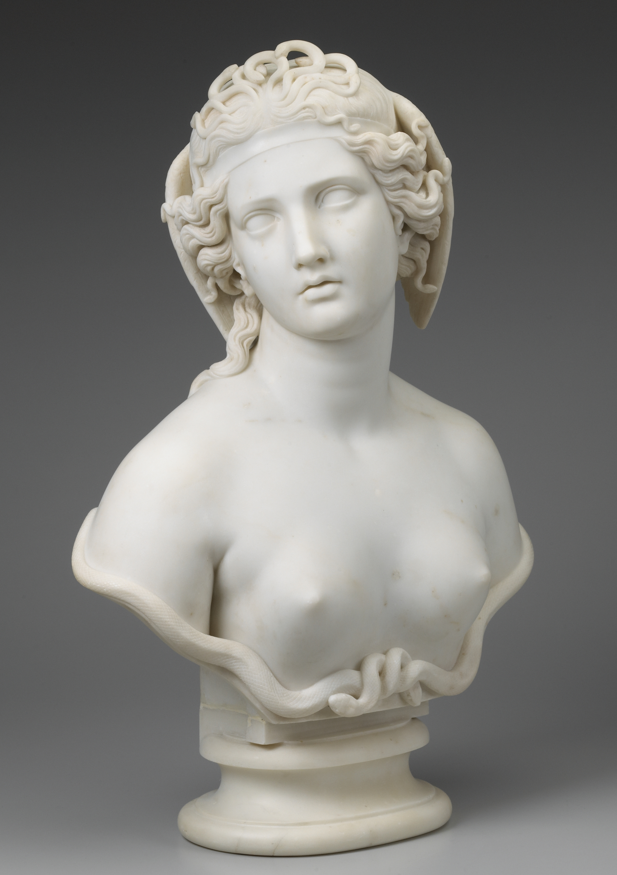 Harriet Hosmer is widely recognized today as one of the first and most skilled female sculptors in America. She was particularly interested in the historic plight of women, which is seen in her extraordinary bust of Medusa, created in 1854. In Greek mythology, Medusa was a beautiful girl cursed by Athena, who mutated her into a vile, homely Gorgon. Medusa's hair turned to snakes and she gained the power to petrify men. Hosmer's Medusa is compassionately rendered in a fixed state of transformation, with snakes intertwining her lovely hair. In addition, Medusa bears two feathered wings, reminiscent of the winged horse Pegasus that was born from her neck after she was beheaded.